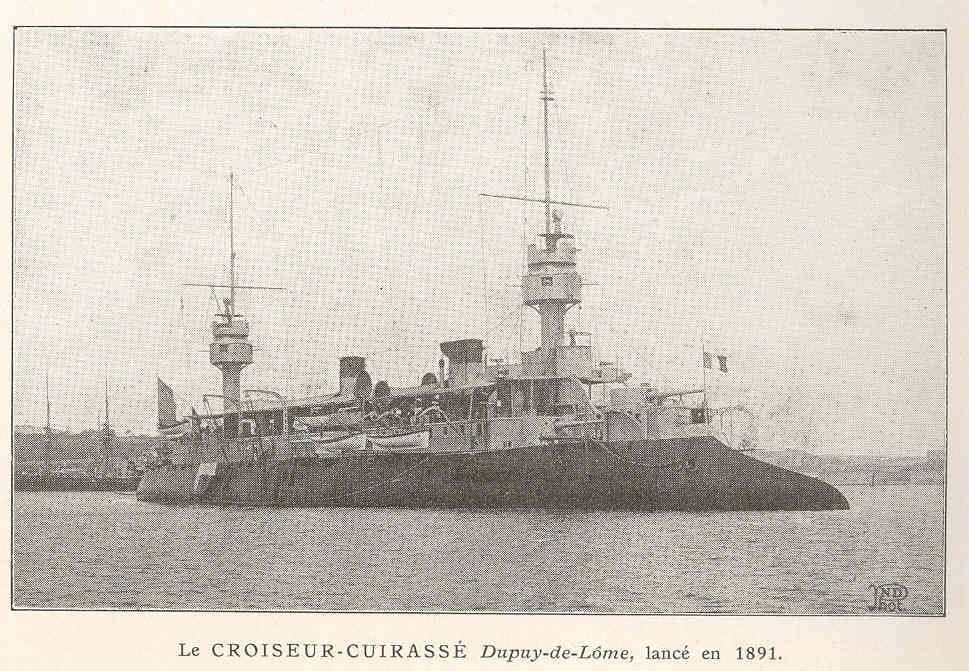 Subject: Battleships, Dupuy-de-Lome (Battleship) Tag: Vessels